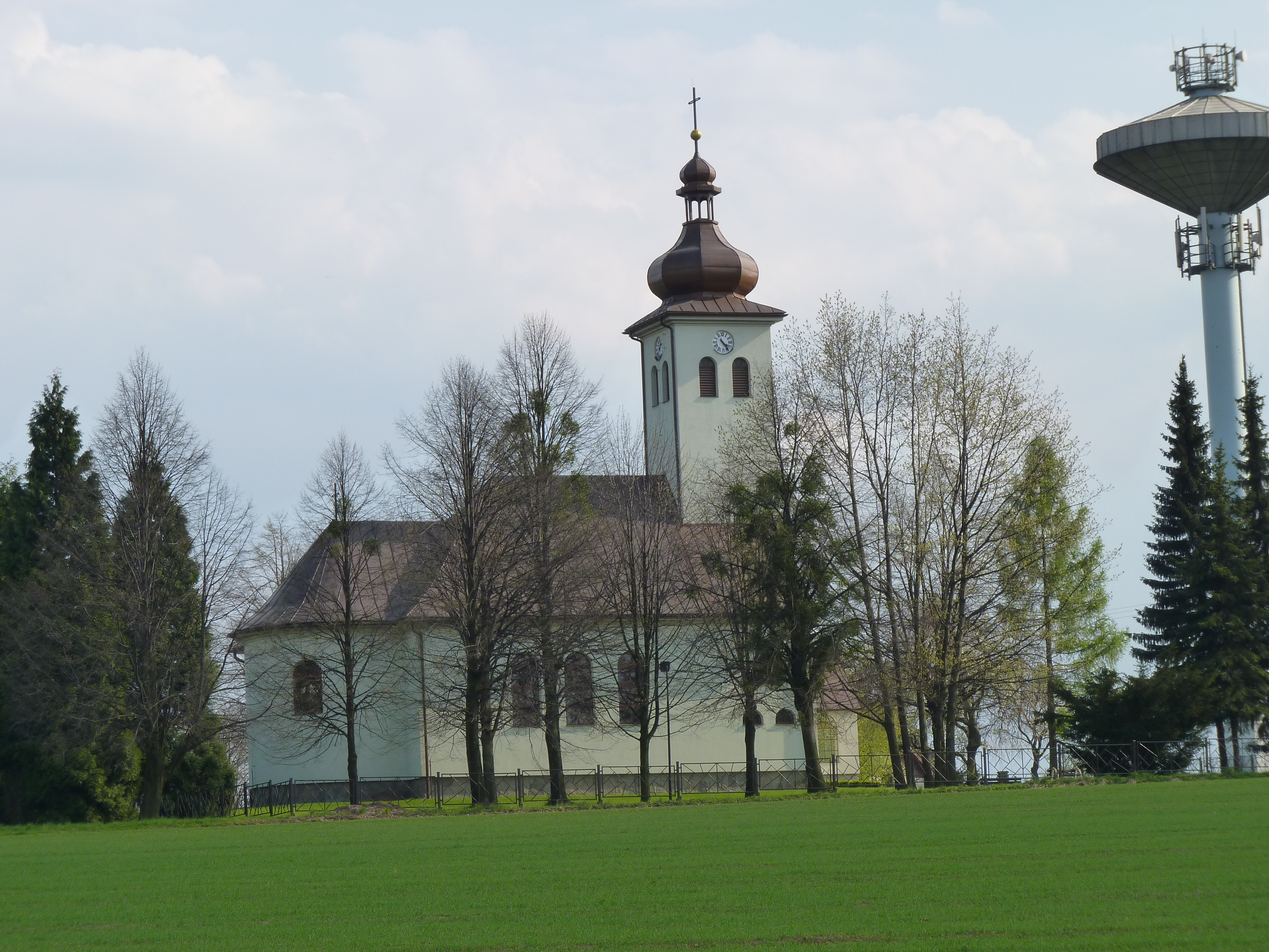 Church. Soběšovice, Frýdek-Místek District, Moravian-Silesian Region, Czech Republic